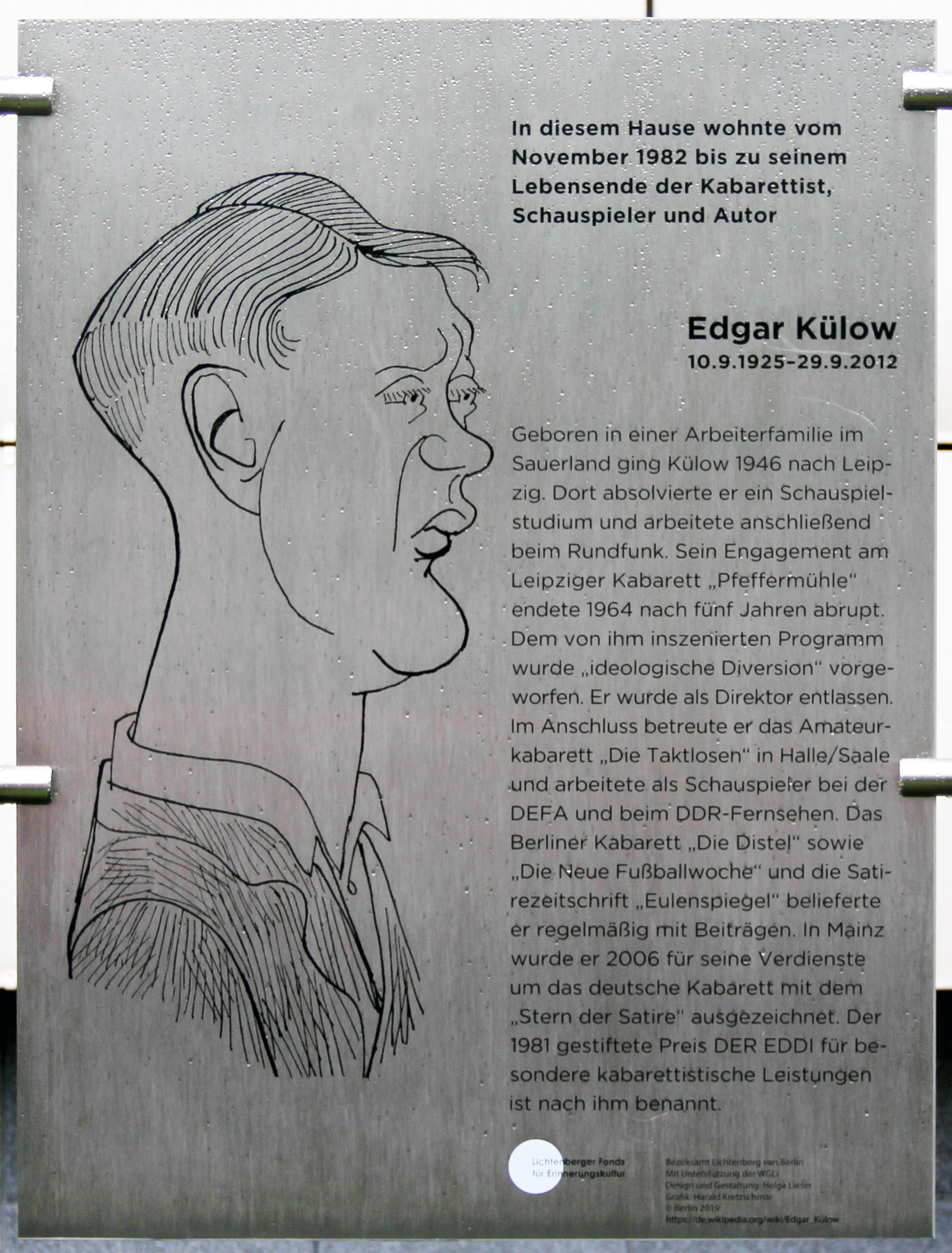 Memorial plaque, Edgar Külow, Bernhard-Bästlein-Straße 20, Berlin-Fennpfuhl, Deutschland